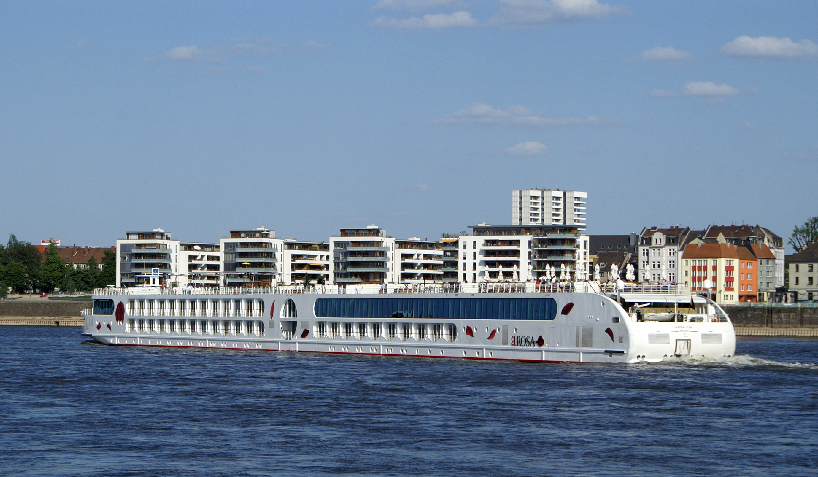 River cruise ship A-Rosa Viva in Cologne-Mülheim.